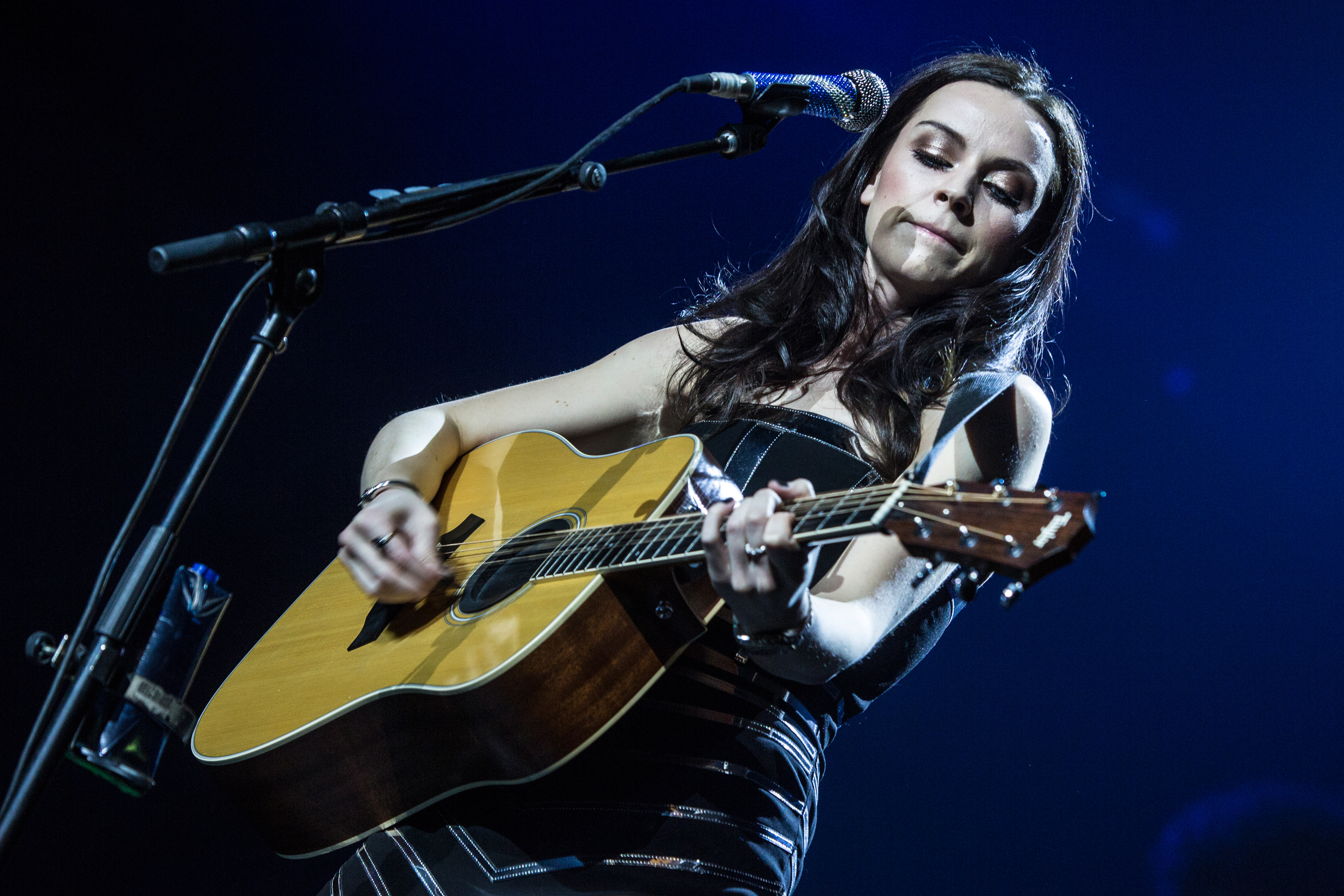 The scottish singer Amy Macdonald during AIDA Night of the Proms 2013 at Festhalle Frankfurt, Germany.